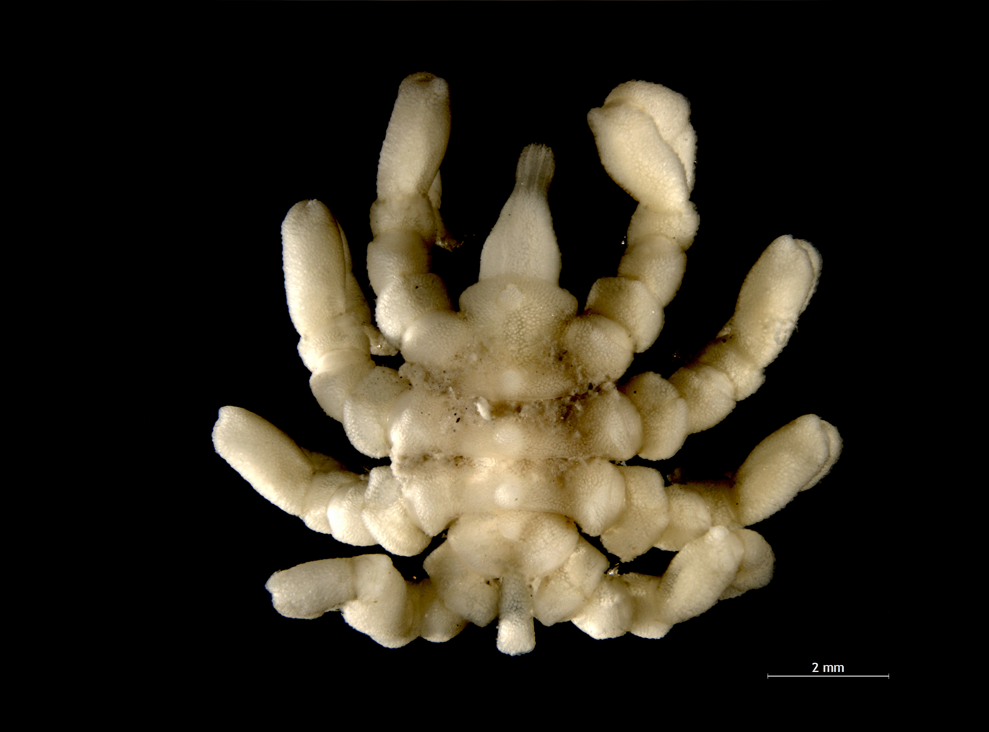 Dorsal view of a sea spider, taken with a Leica DFC 490 camera mounted on a Leica M205C binocular microscope. Collected at Wimereux, France in 1987. Picture was taken in the lab.Width = ~10 mmFocus stacking of 39 pictures.